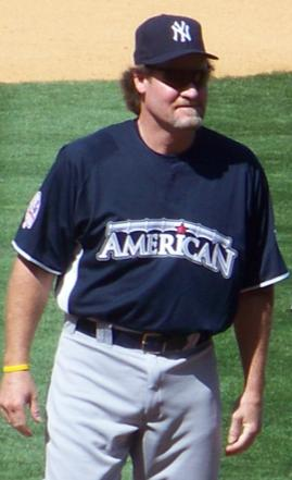 Wade Boggs at the 2008 MLB All Star Legends & Celebrity Softball Game